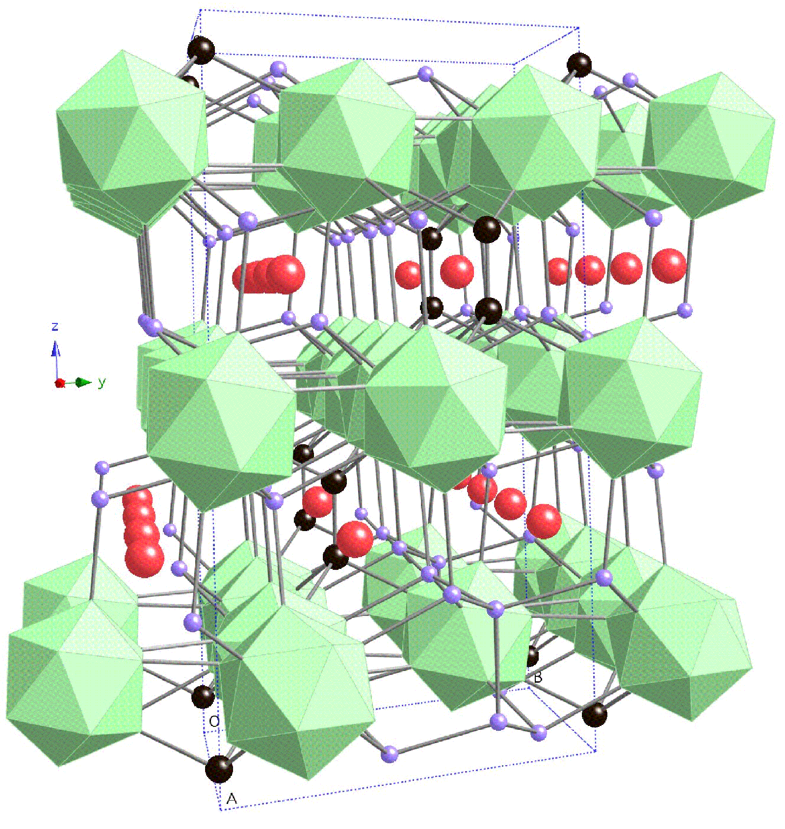 Crystal structure of RExB12C0.33Si3.0 (RE=Y or Dy) viewed along the direction close to [100]. Red, black and blue spheres correspond to Y or Dy, C and Si atoms, respectively. Vacancies at the Y or Dy site are ignored. Green polyhedra indicate the B12 icosahedra.